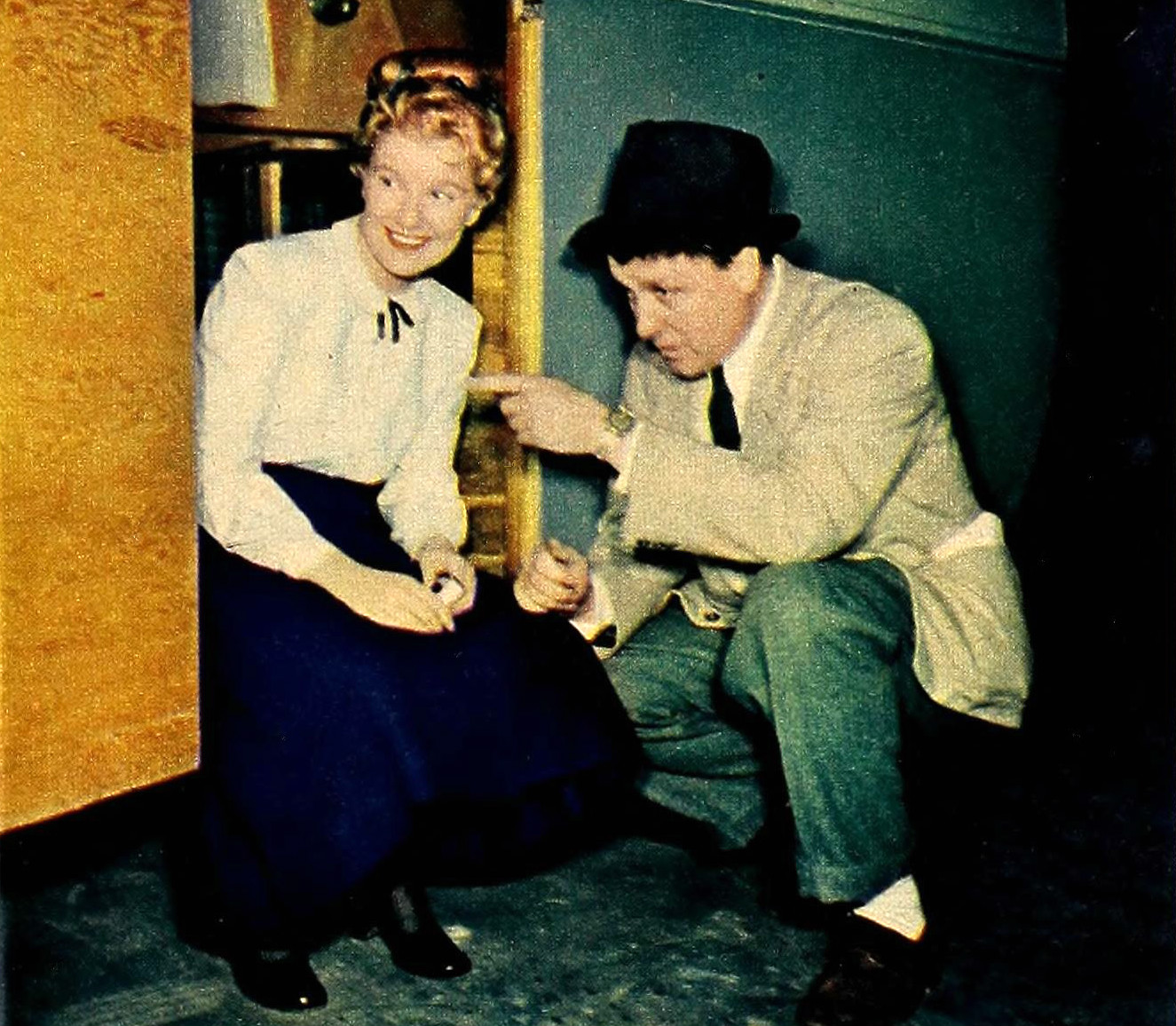 Photo of George Stevens joking with Barbara Bel Geddes on the set of I Remember Mama.